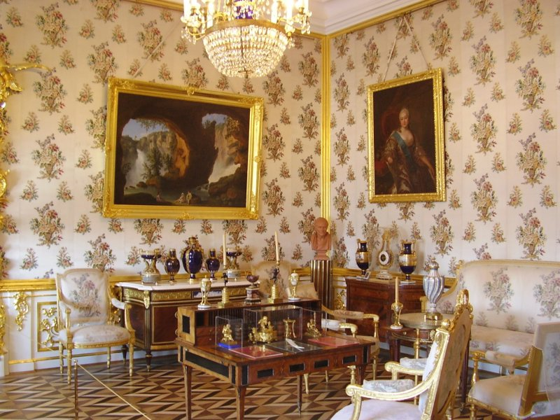 Peterhof Interior.